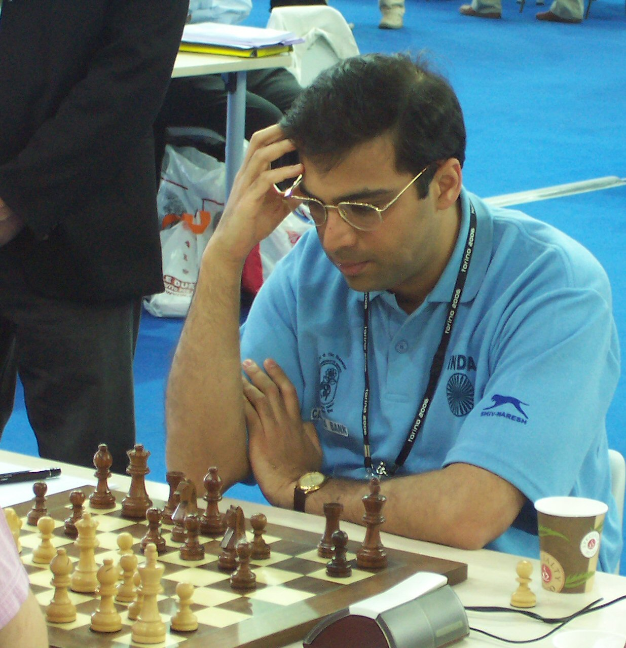 Viswanathan Anand at the Chess Olympiad Turin 2006